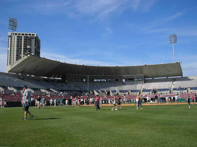 Grandstand at Progress Energy Park in 2008